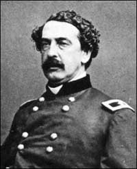 Abner Doubleday, a career U.S. Army officer and Union general in the American Civil War